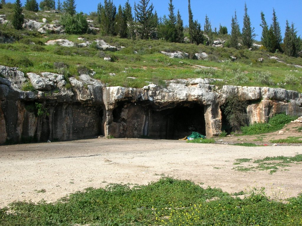 Monks Valley in Modiin